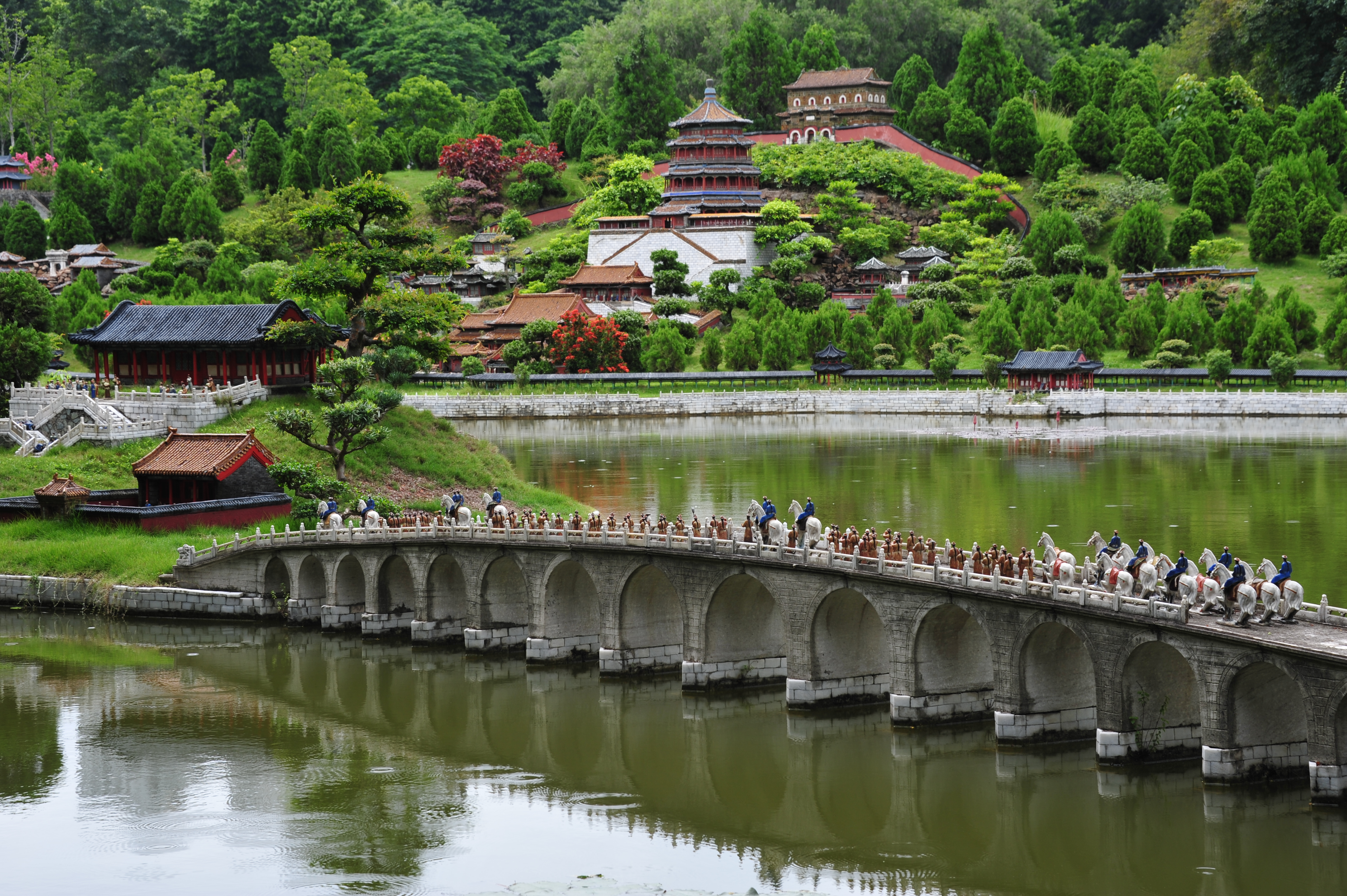 shenzhen china splendid china 2011